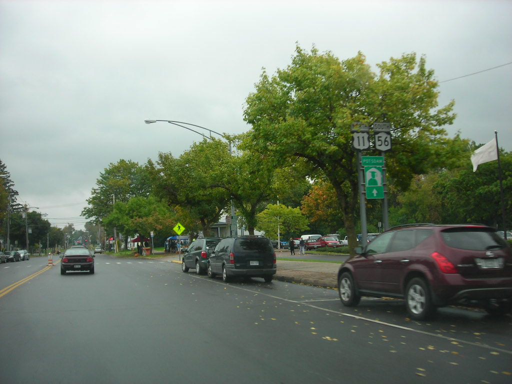 U.S. Route 11 north and New York State Route 56 south on a wrong-way concurrency through Potsdam village.